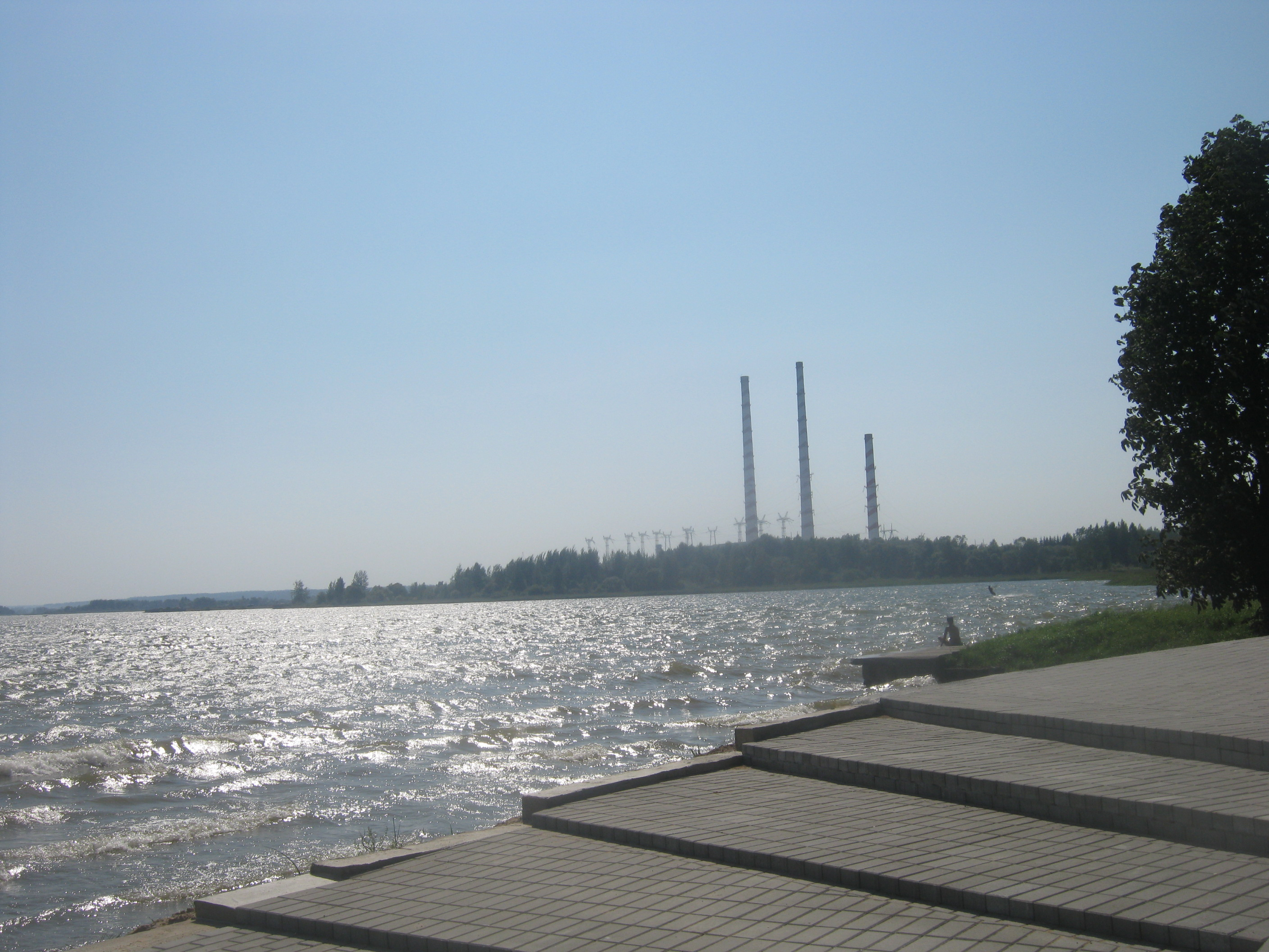 Power Plant in Elektrėnai